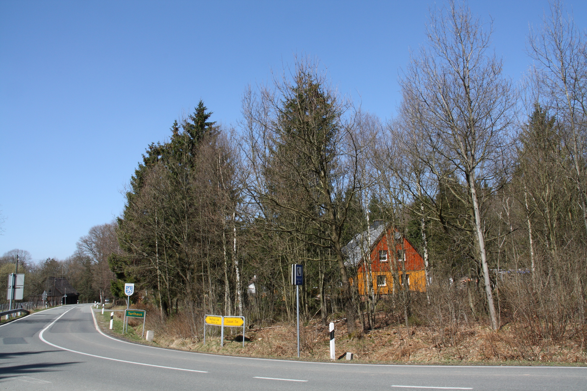 small village Torfhaus (district of village "Silberborn") in the forrest "Solling"